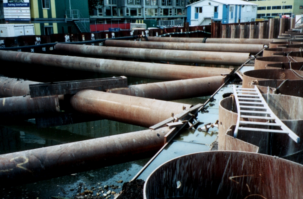 Construction site in Rotterdam, the Netherlands